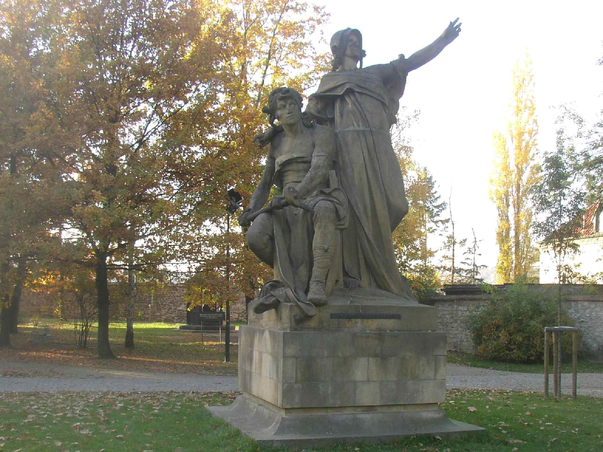 Přemysl a Libuše, Vyšehrad, Prague, Czech Republic. Sculpture designed by Josef Václav Myslbek in 1881 and finished in 1890 depicts two characters from old Czech legends - Princess Libuše (in the moment when she foretells future glory of Prague) and her husband Přemysl the Plower, both mythical ancestors of the Přemyslide dynasty. It was originally placed at the Palacký Bridge, but was heavily damaged during US air raid in February 1945. The statues from the bridge were transferred to Vyšehrad in 1947 except this one. A copy of Přemysl and Libuše has been made later and placed in the Vyšehrad park since 1978. Photo taken by Miaow Miaow in October 2005, PD-self